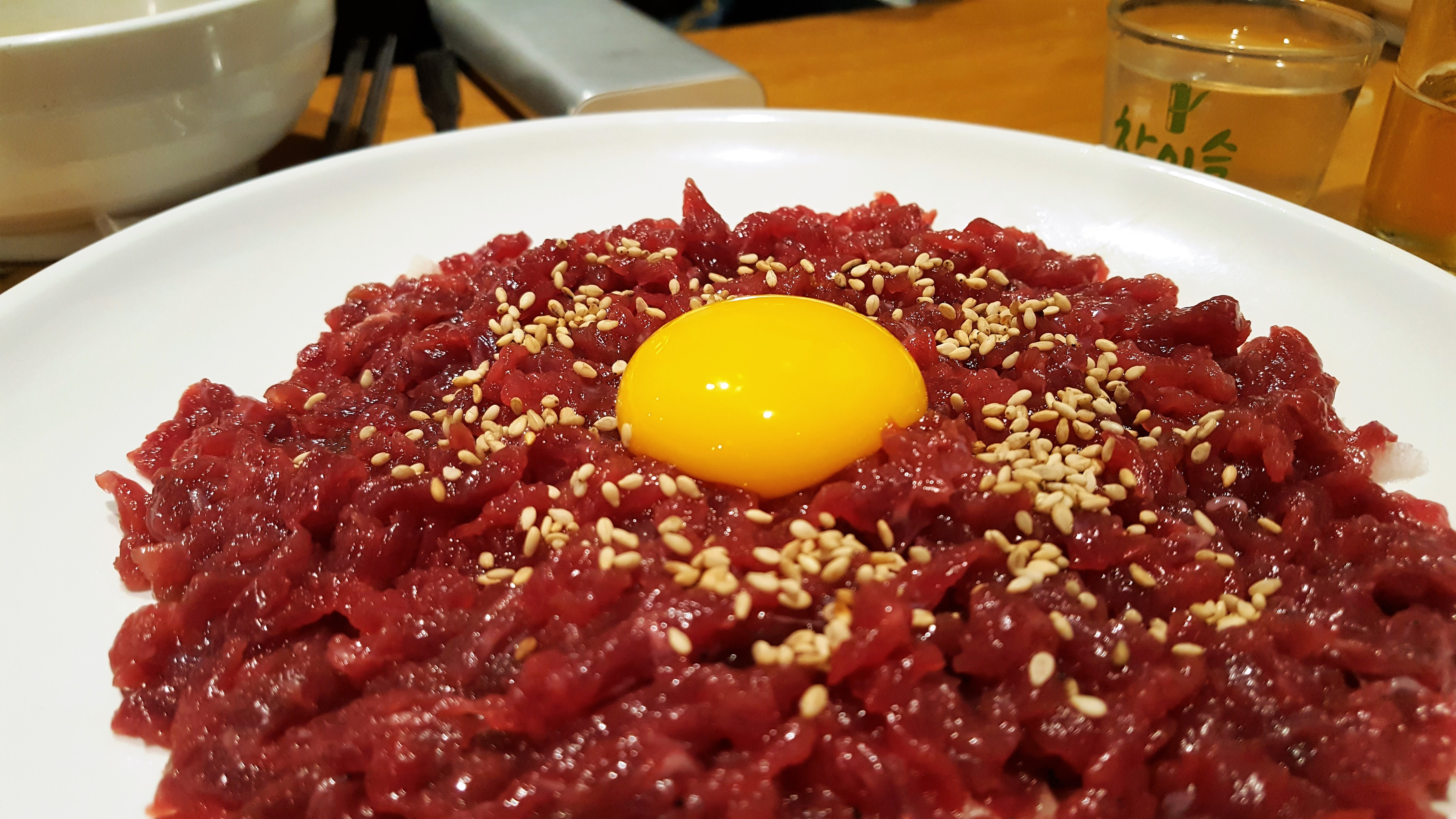 Yukhoe